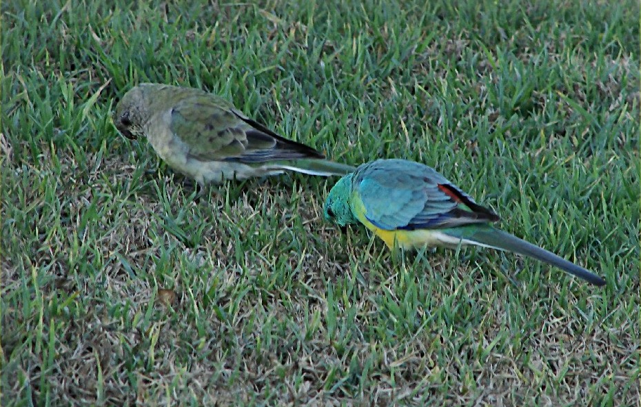 Other name: grass parrot. Bright male and dull female.